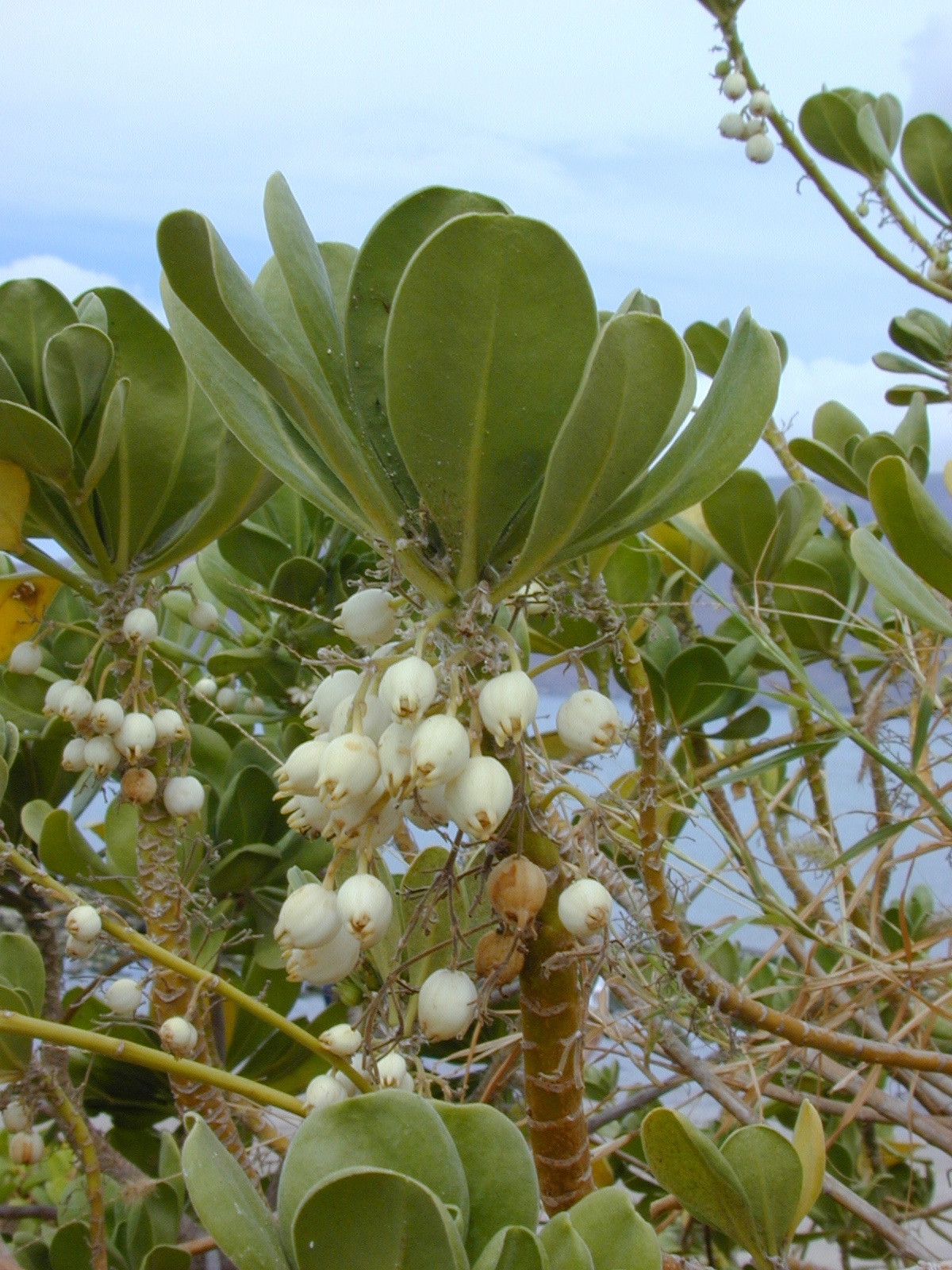 Scaevola taccada (fruits). Location: Maui, Kihei